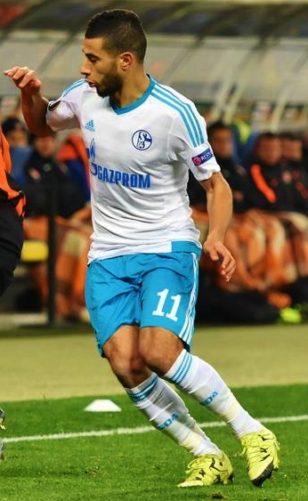 Younès Belhanda